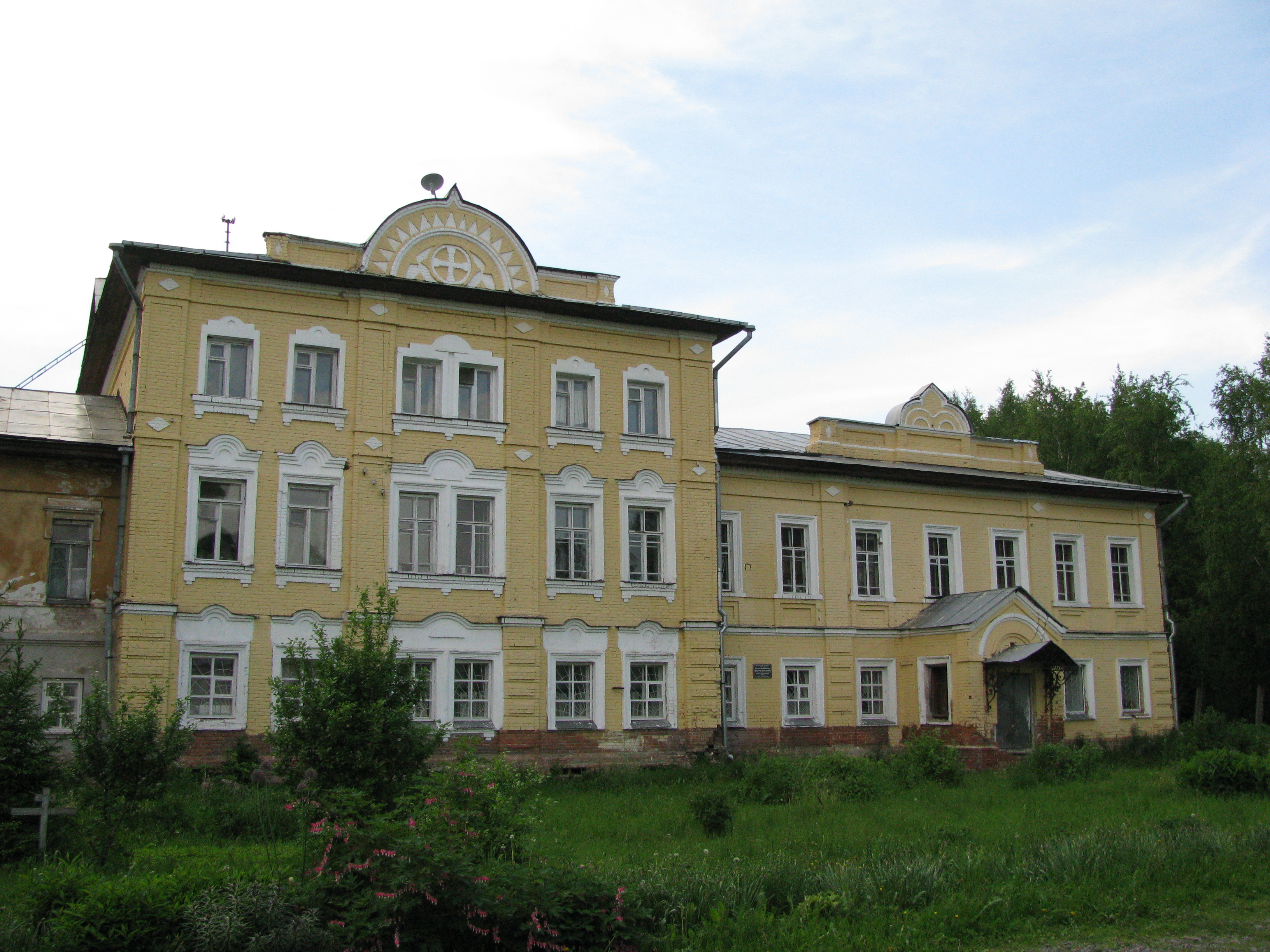 Shelter in Gorny monastery in Vologda